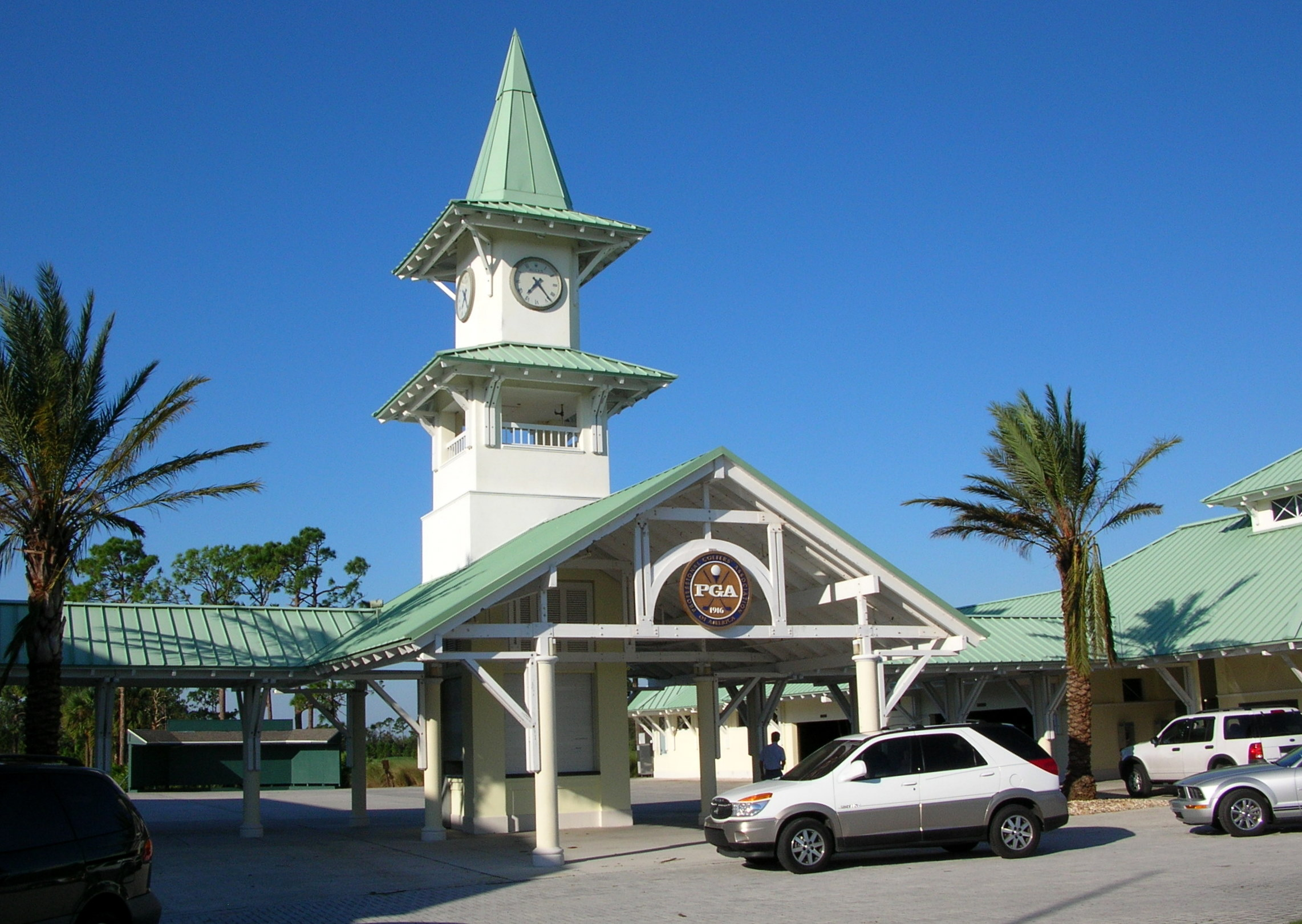 PGA Village golf club, Port St. Lucie, Florida, USA